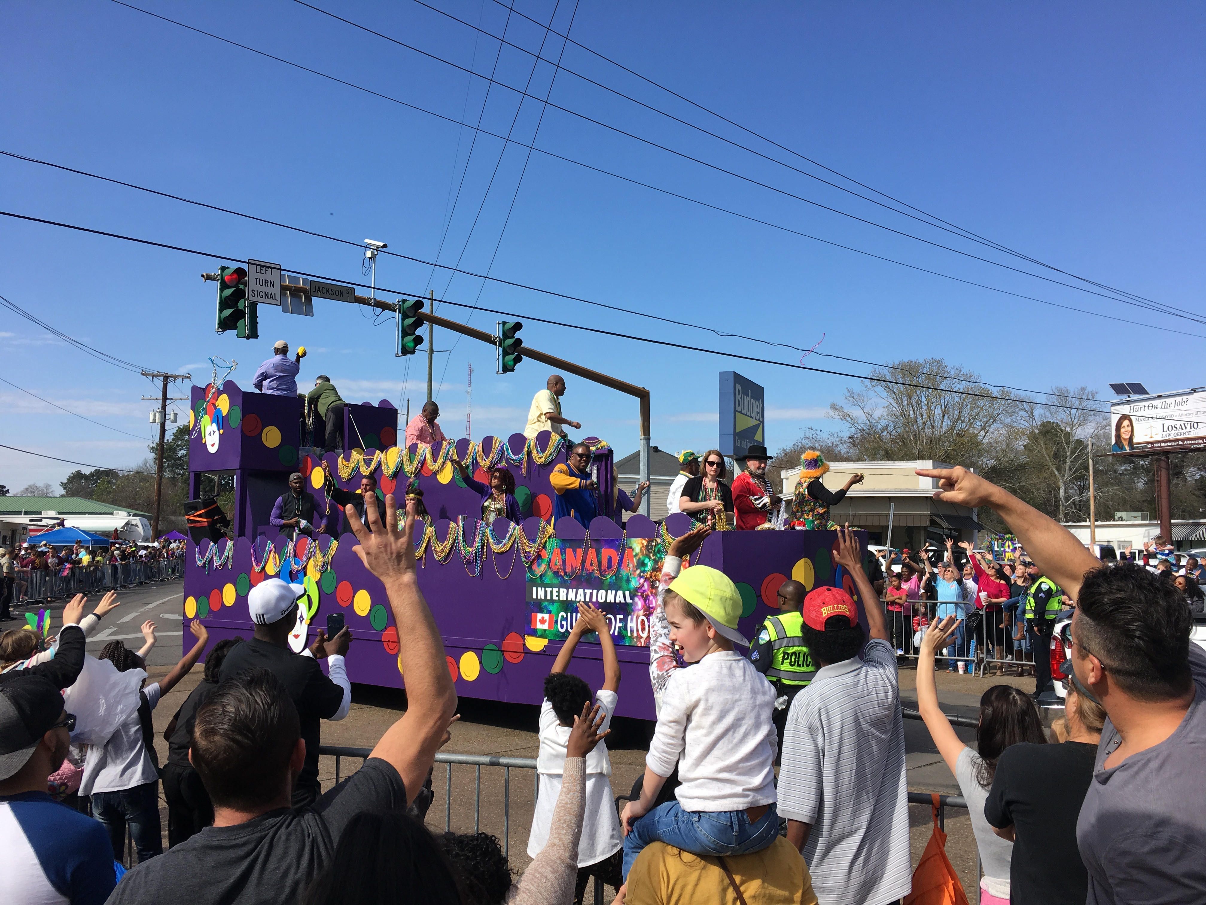 Mardi Gras float in Krewes Parade in Alexandria, Louisiana, United States.